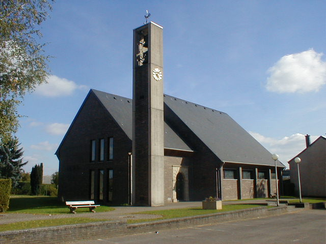 Church of Sélange, Messancy, Belgium. Walon: Eglijhe di Sélindje.